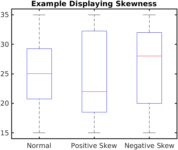 boxplots displaying skewness